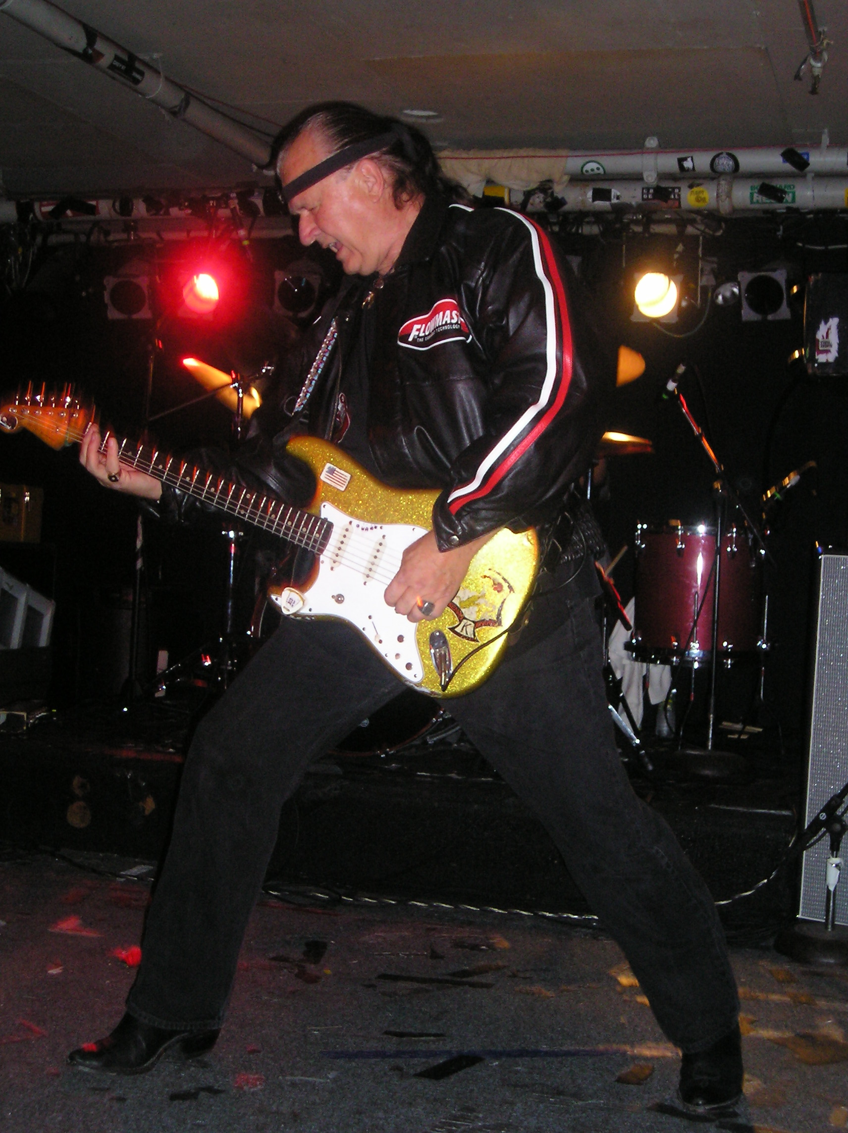 Guitarist Dick Dale performing at the Middle East Restaurant and Nightclub in Cambridge, Massachusetts, United States, on May 28, 2005.